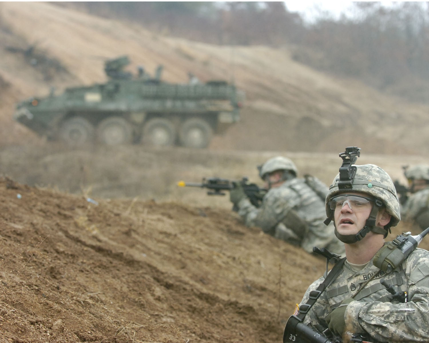 Staff Sgt. Christopher Bolwell communicates with his squad during dismounted maneuvers.